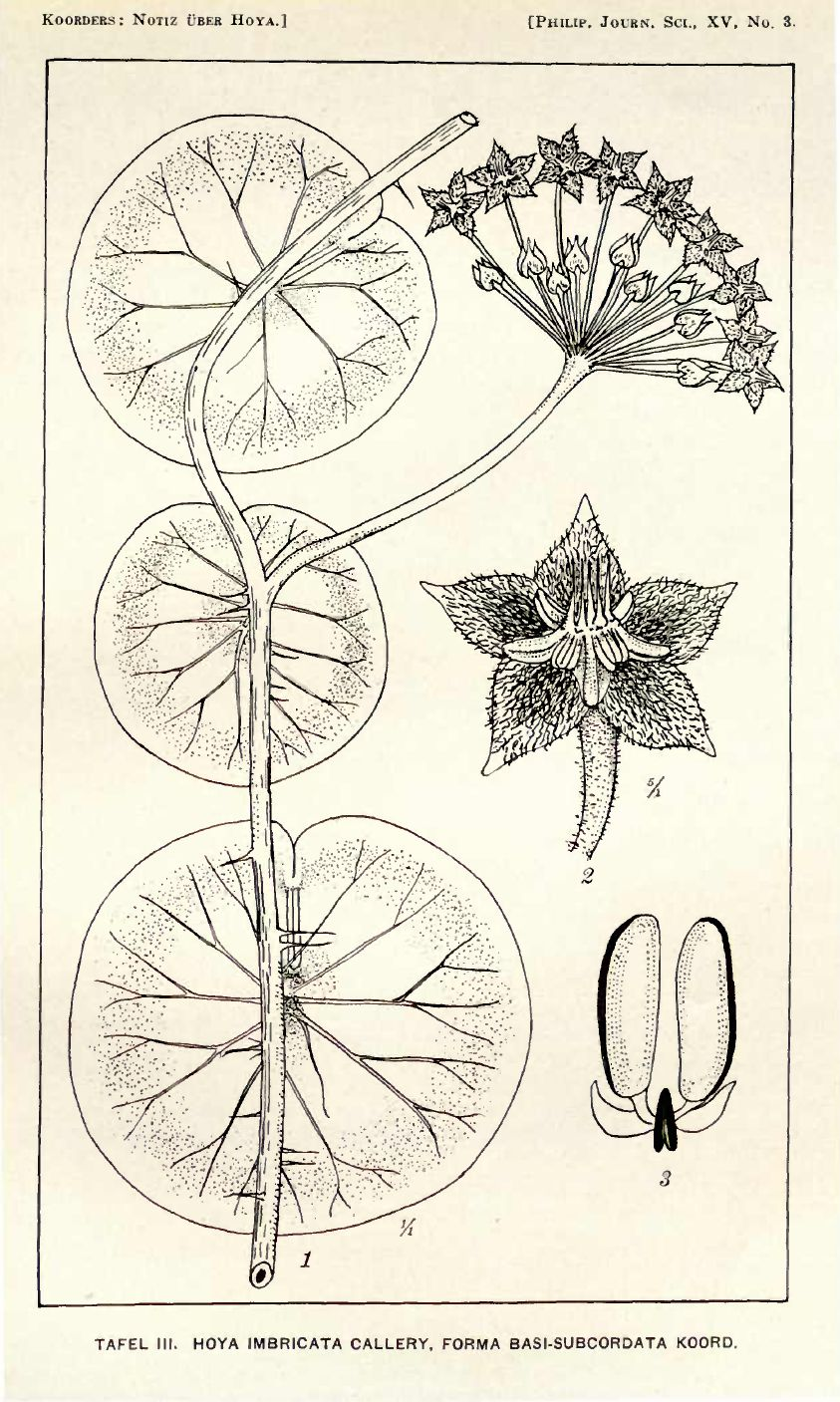 Hoya imbricata Decne.